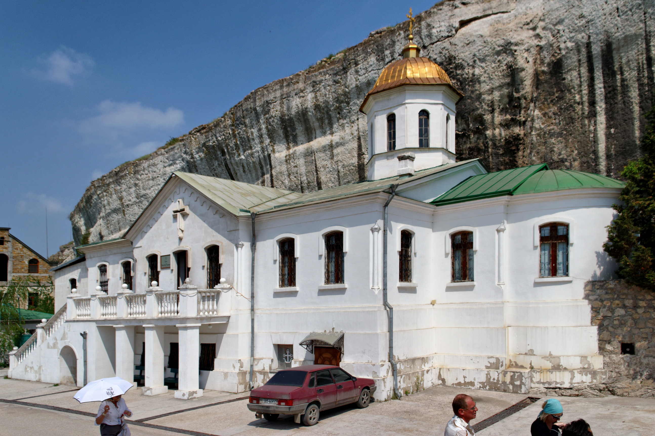 Inkerman. Inkerman Cave Monastery. Trinity church